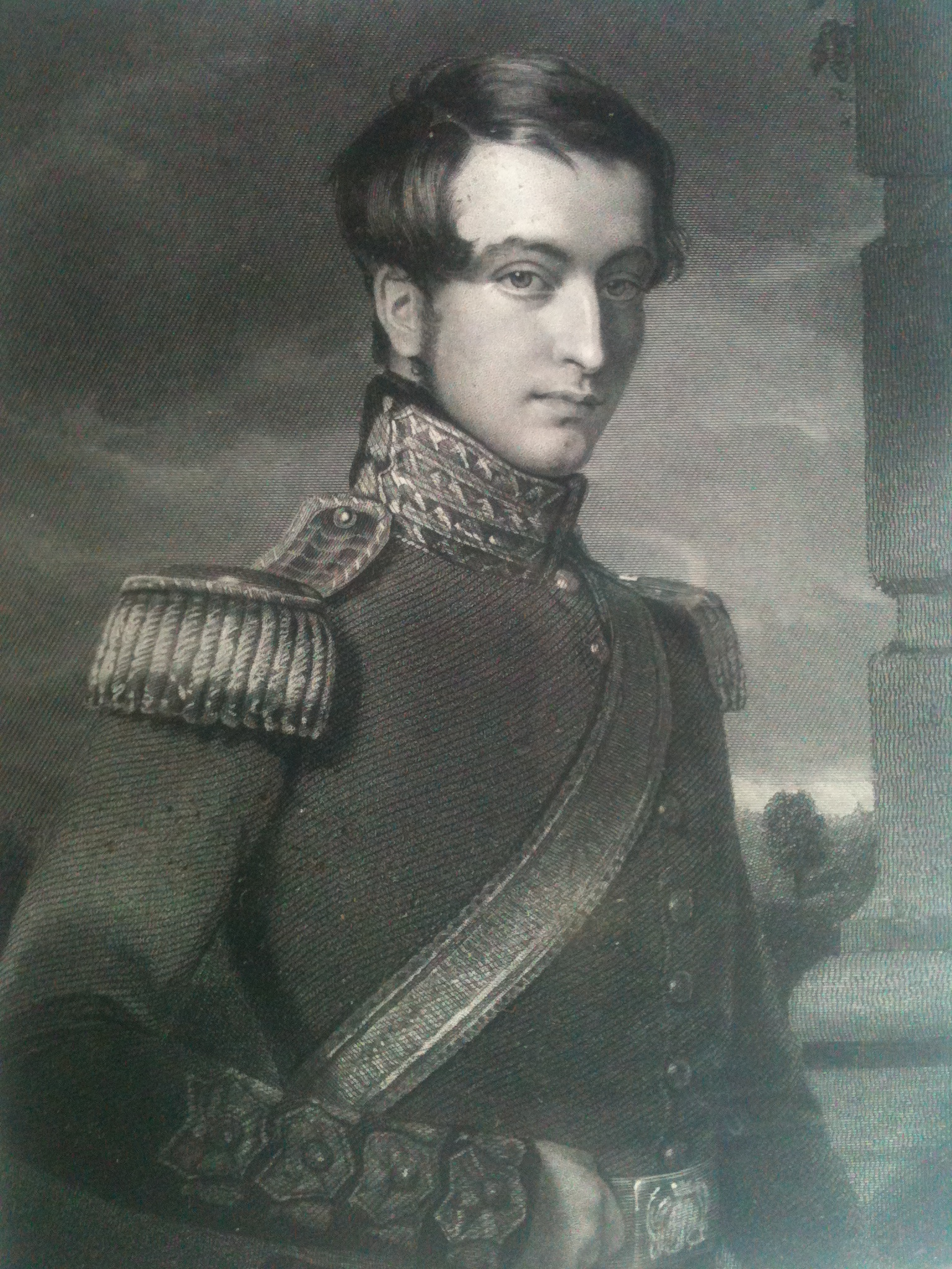 Photo taken by me (R. de Salis,Rodolph (talk)) of the print. A detail of an engraving of Captain Robert Meade, 2nd Dragoons, eldest son of Gen. the Hon. Robert Meade. Daniel J. Pound after Sir William Charles Ross, RA.